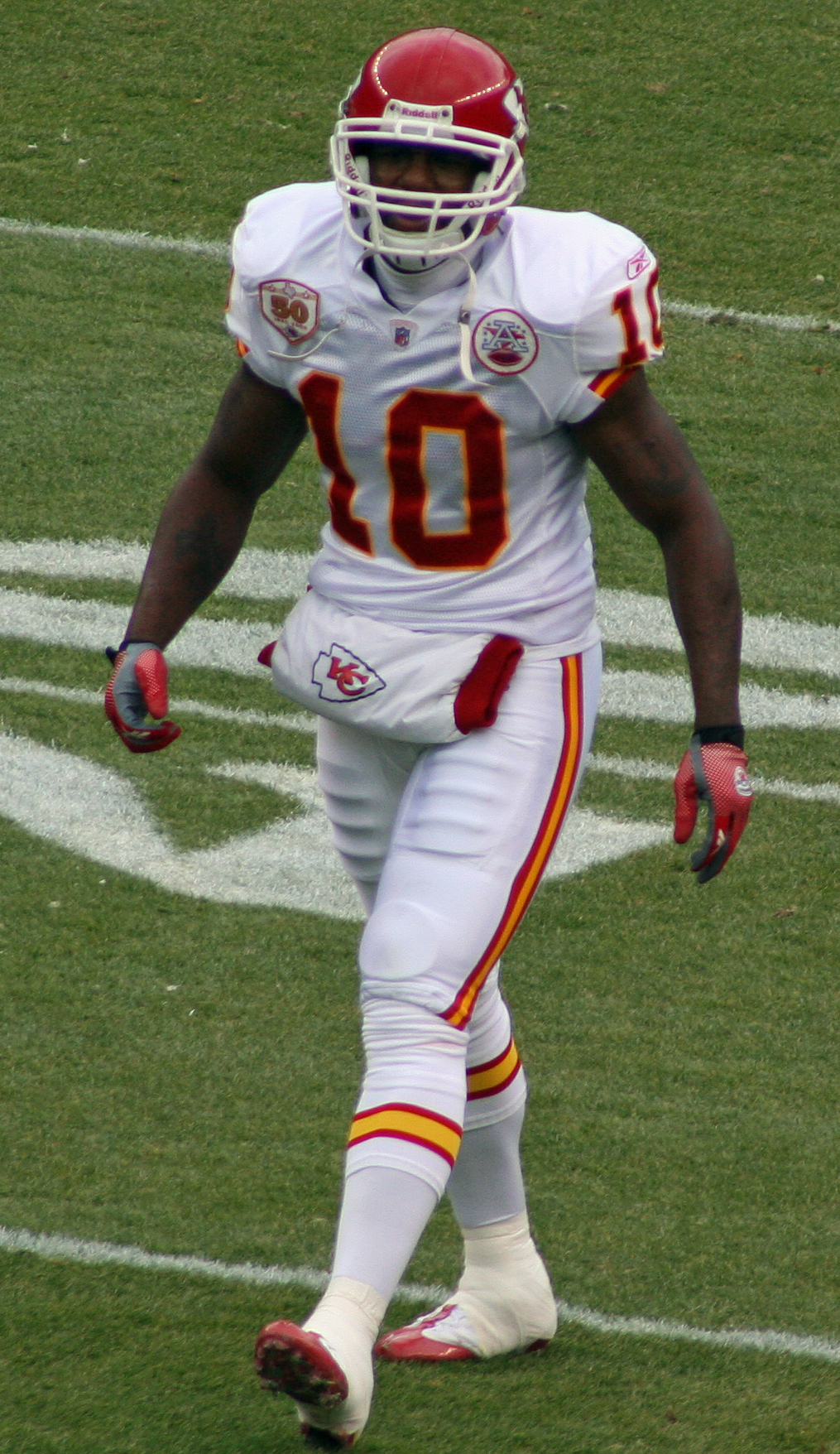 Terrance Copper, a player on the Kansas City Chiefs American football team.